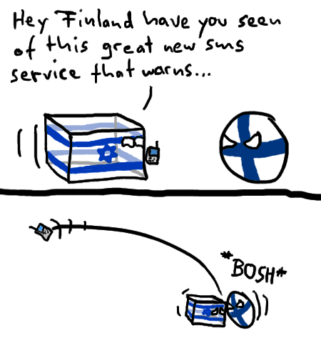 Polandball comic on the news that Finland wins the 2012 mobile phone throwing championships (news link)